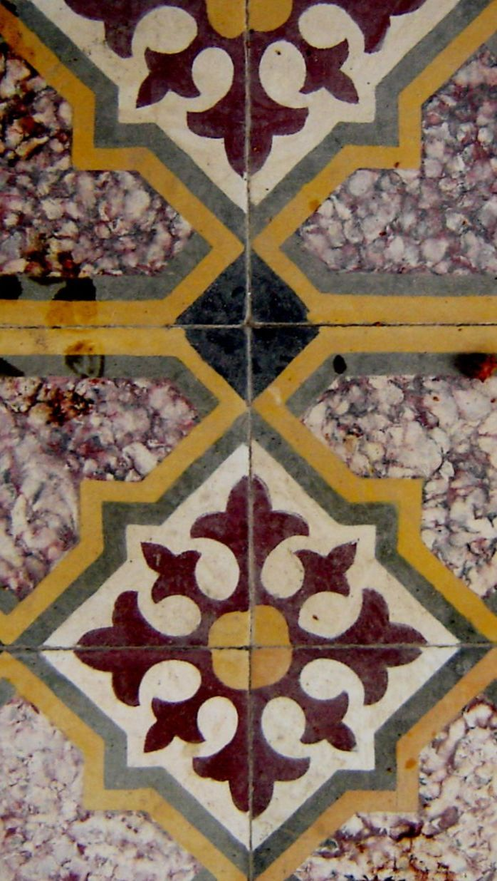 Floor tile in Karpas, northeastern Cyprus.